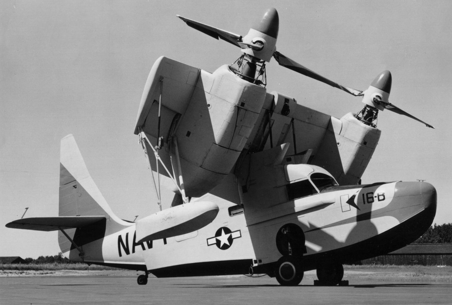 The Kaman K-16B tiltwing research aircraft.